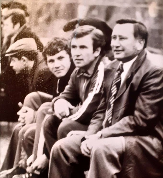 Cosmoc, Muta and Georgescu at FC Bihor (1975)